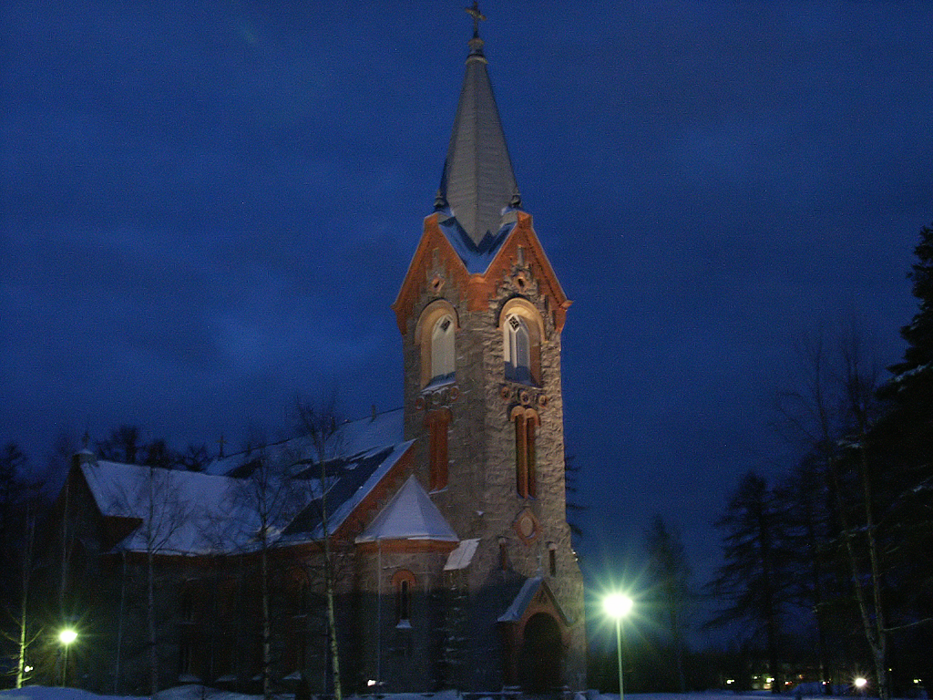 Bell tower at the Lutheran city church of Kitee, Finland. This church is Evangelic Lutheran, who form the majority (8691 of 9795) in the city.